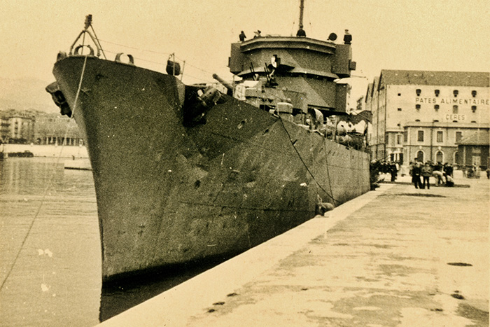 GER UJ 2221 (ex Vespa) Nizza 25-04-44 MM MG